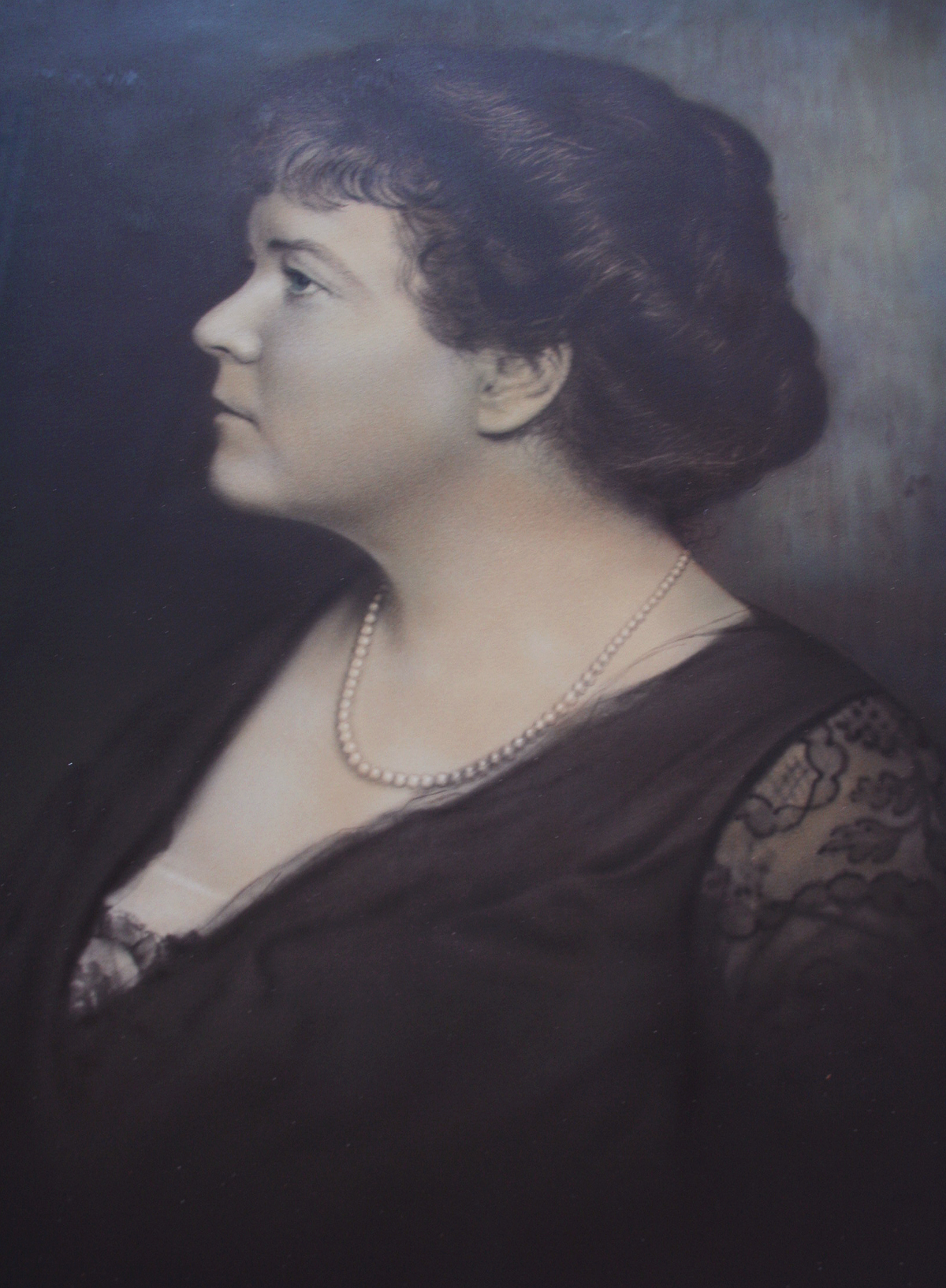 Portrait of Katharine Felton